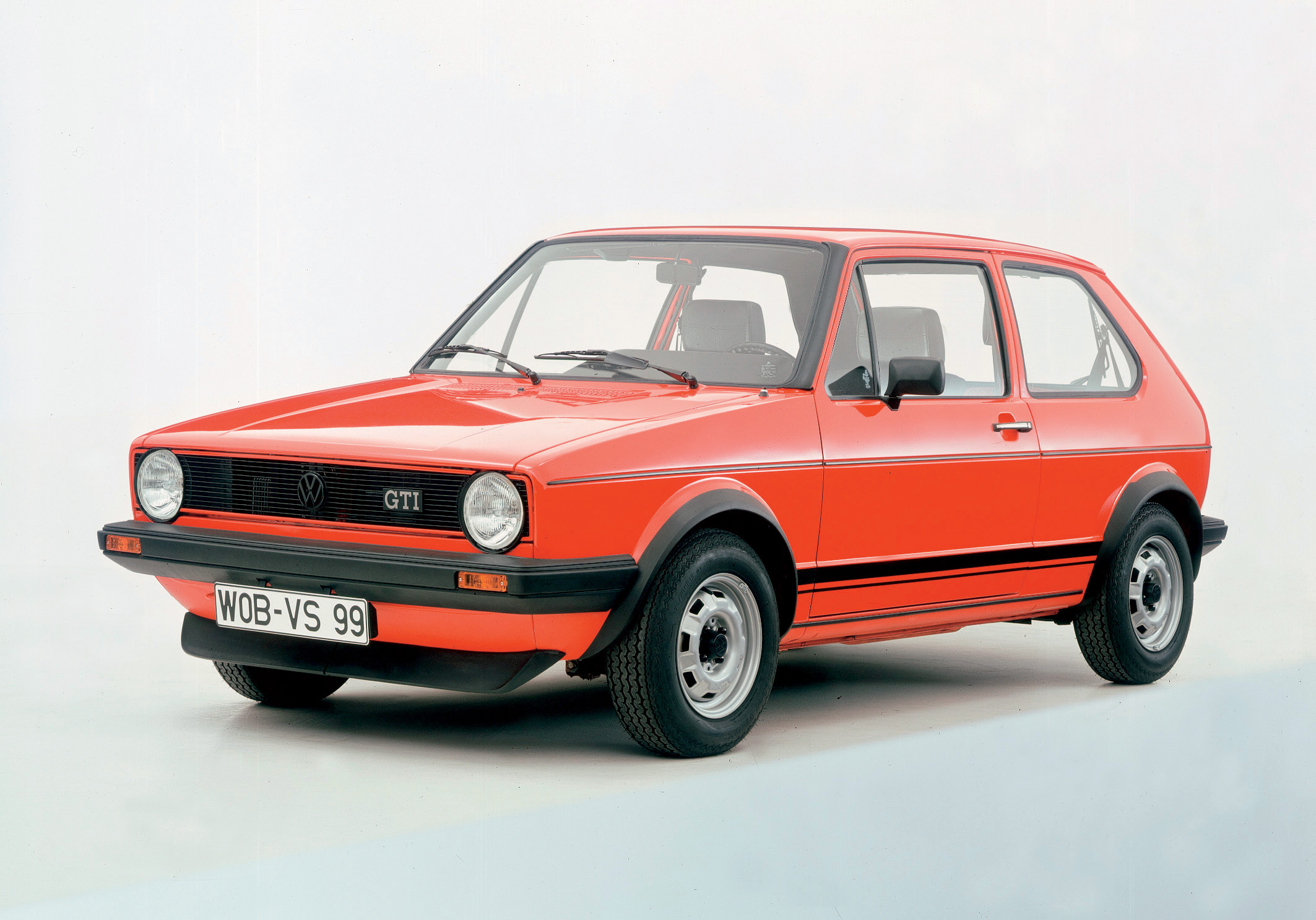 A 1975 Volkswagen Golf Mk I GTI.